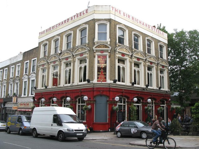 The Sir Richard Steele, Haverstock Hill, NW3. Aka The "Sir Richard Steeles" - see 1458413; and "The Steeles" - see 1458419.